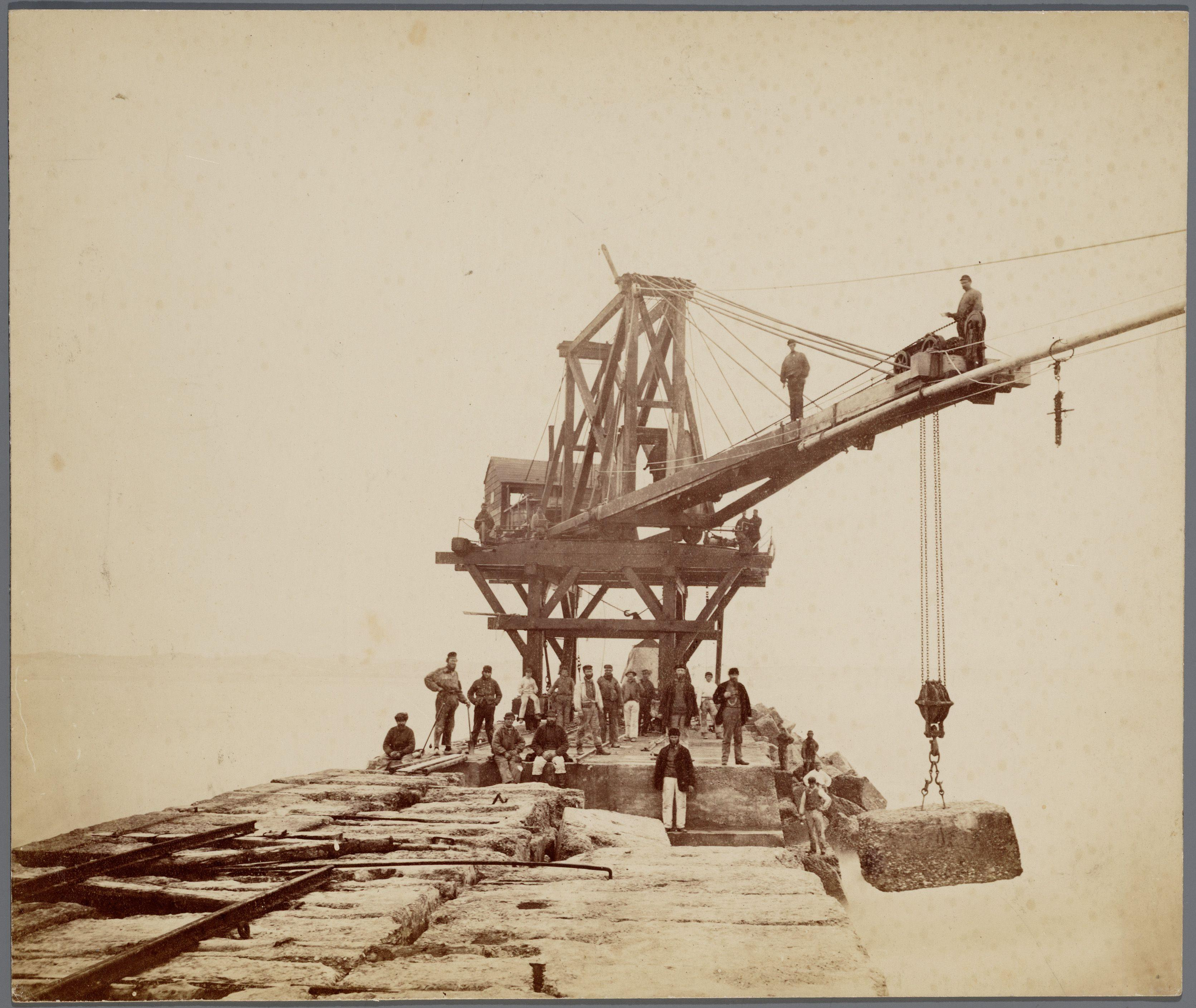 Titan or crane for placing concrete blocks on the Zuiderhoofd, repair of storm damage, deposit in the breakwater The harbor heads at IJmuiden under construction. Crane Titan IV, for placing concrete blocks on the Zuiderhoofd during repairs after storm damage. This is number 12 in a series of photos that Pieter Oosterhuis made of the construction of the North Sea Canal. Series: Oosterhuis, Construction of the North Sea Canal Generated with Dememorixer